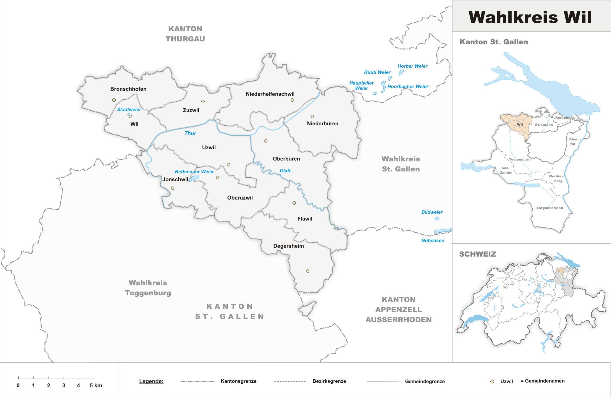 Municipalities in the district of Wil